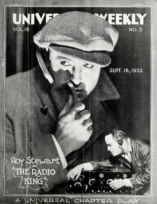 Still from the American film serial The Radio King with Roy Stewart, on the cover of the September 16, 1922 Universal Weekly.